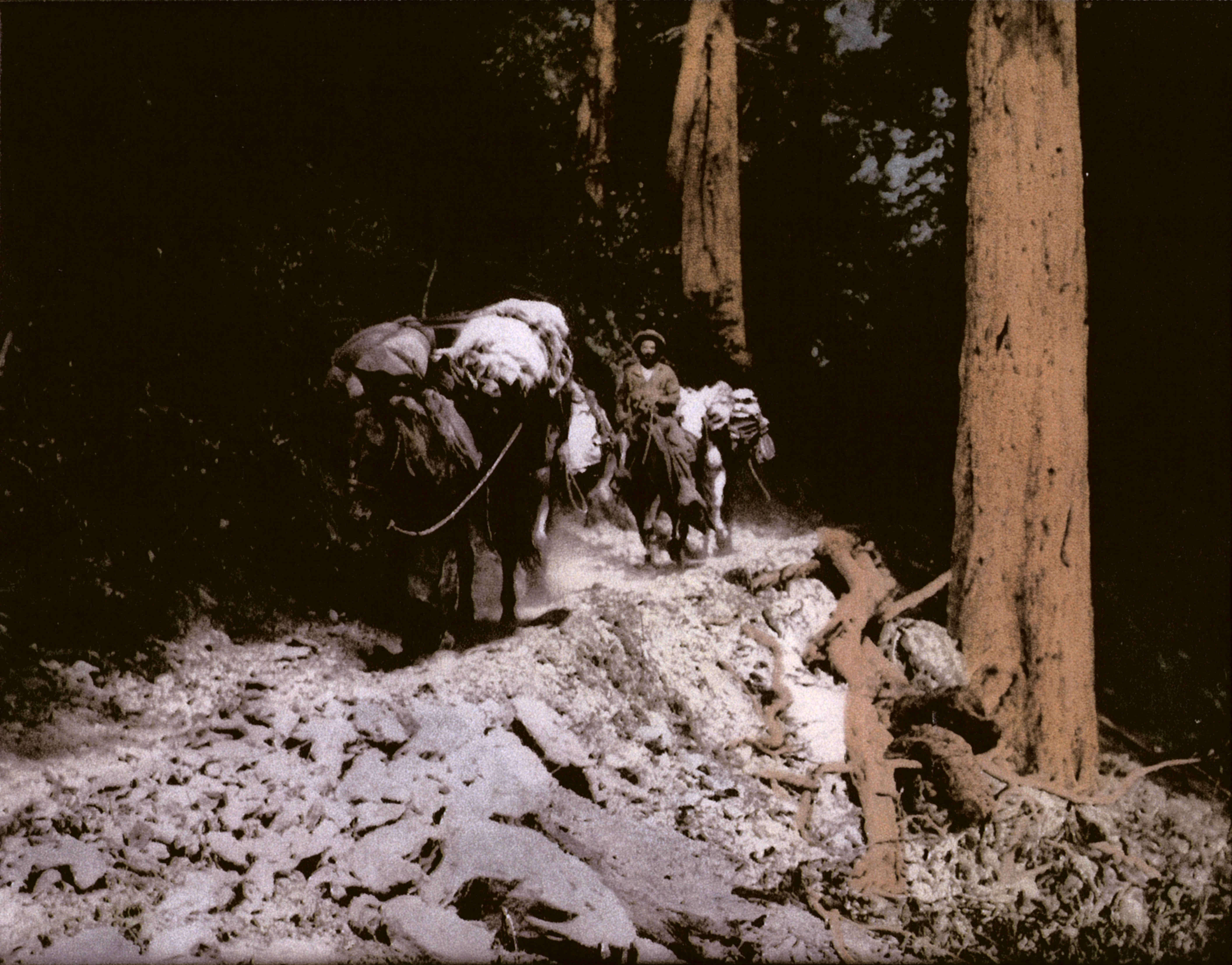 Hand-tinted photograph of local Cowboy Roy Bixby leading pack mules through the redwoods in Palo Colorado Canyon. Bixby assisted a crew of surveyors who were charting the coastal waters for the United States Coast & Geodetic Survey. Photographed by Floyd Risvold.